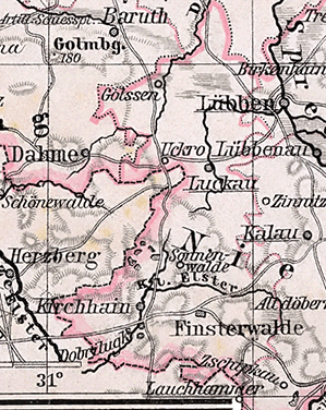 Detail from a map of Brandenburg.